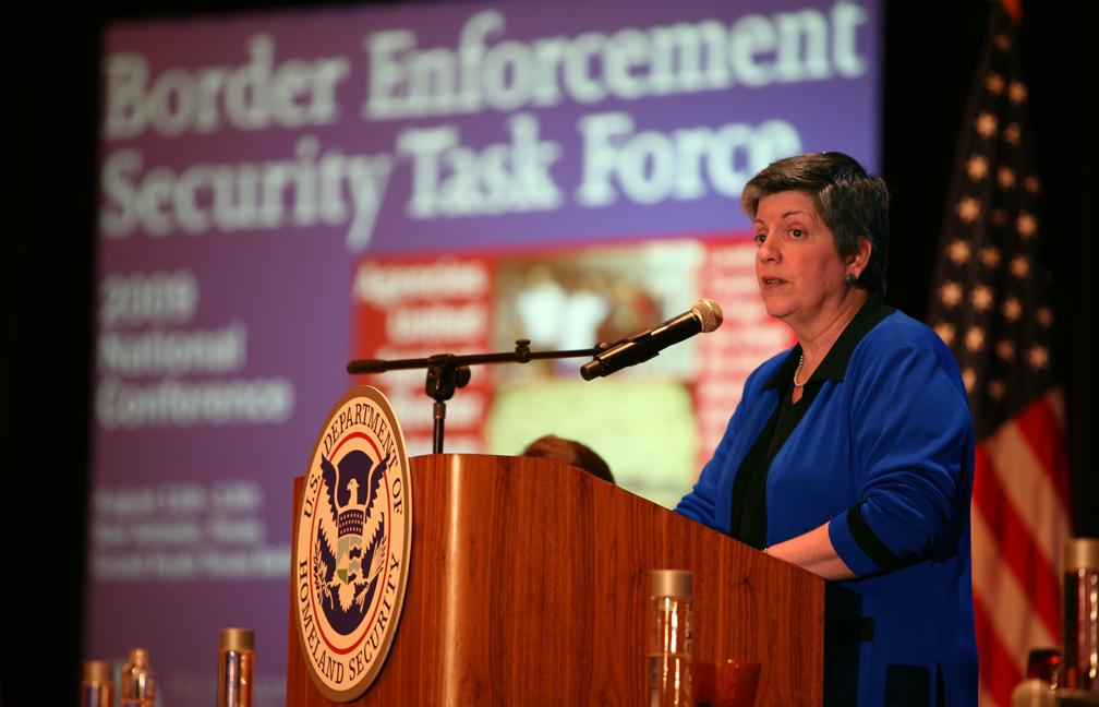 Secretary of Homeland Security Janet Napolitano announces a Border Security task force.